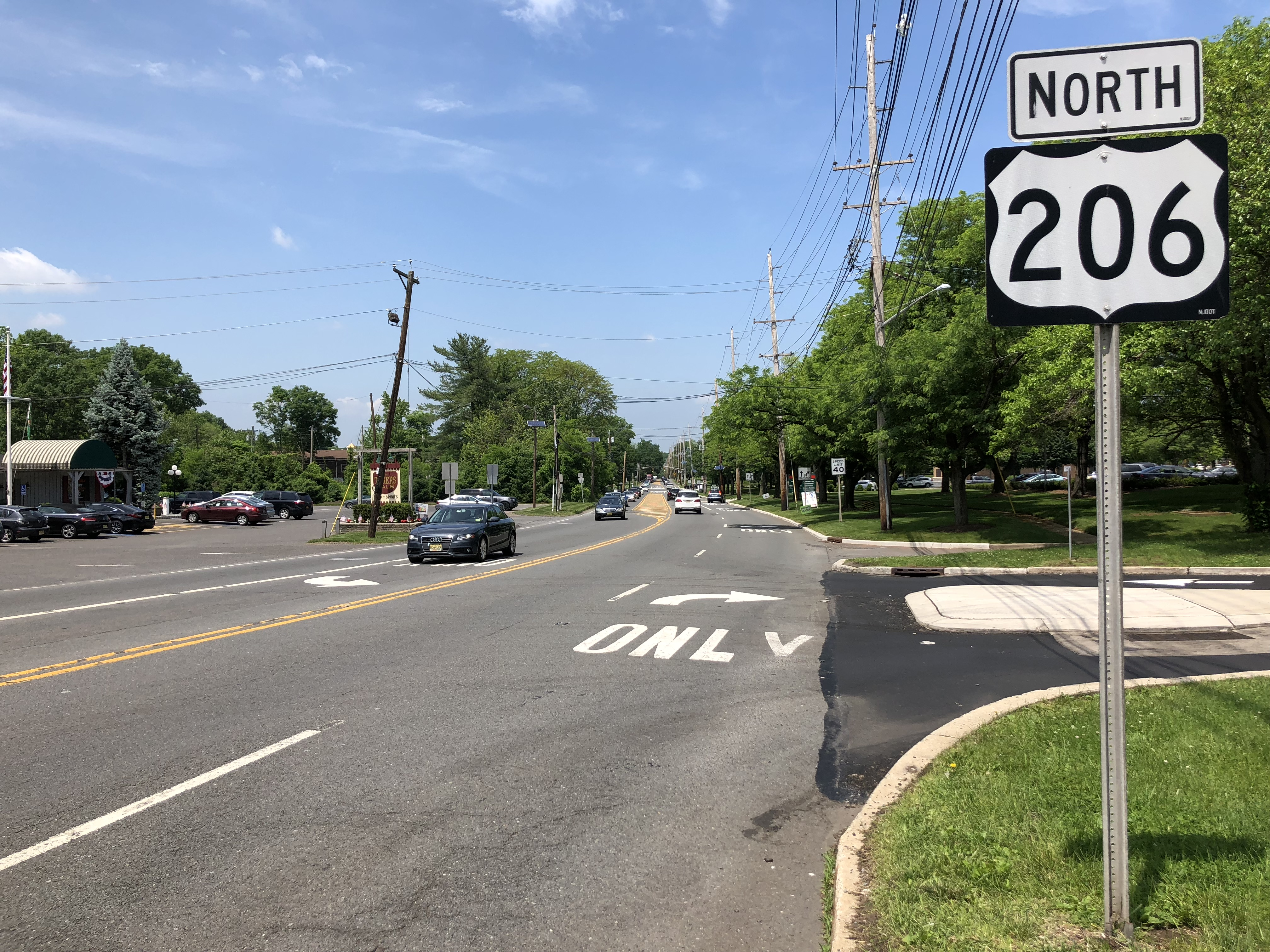 View north along U.S. Route 206 and Somerset County Route 533 at Somerset County Route 518 (Georgetown-Franklin Turnpike) in Montgomery Township, Somerset County, New Jersey